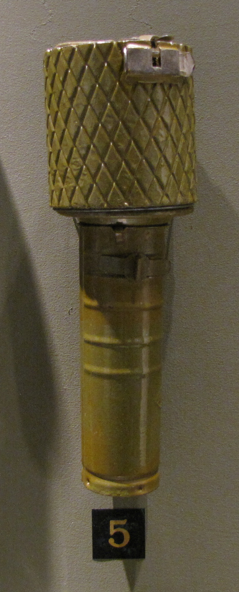 Soviet RGD-33 stick hand grenade with the optional fragmentation jacket in place. Photographed in the "Winter War - 70 years" exhibition in the Military Museum of Finland.